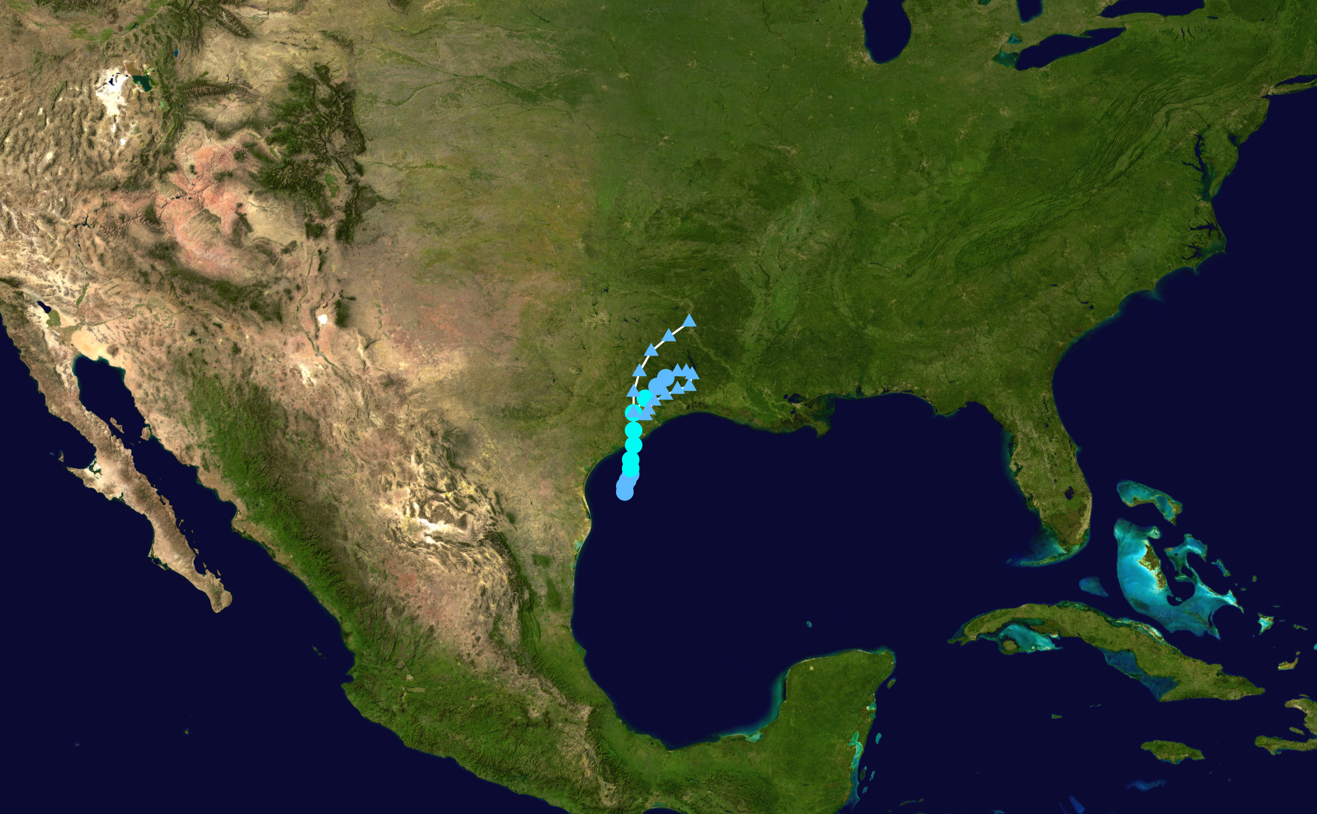 Tropical Storm Allison (1989) track. Uses the color scheme from the Saffir-Simpson Hurricane Scale.